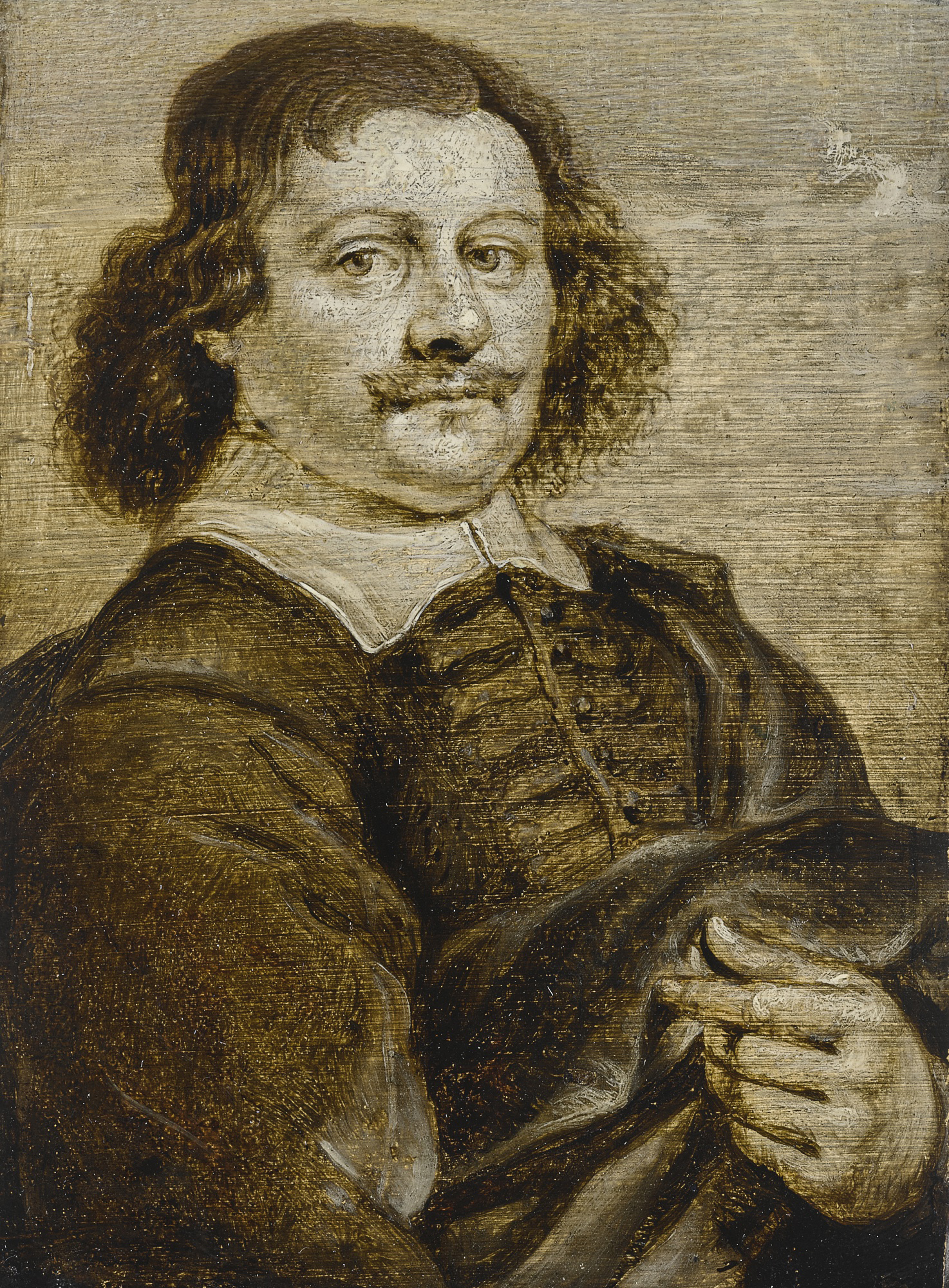 Jan Both oil on panel, en grisaille 13.6 x 10.5 cm. 1668